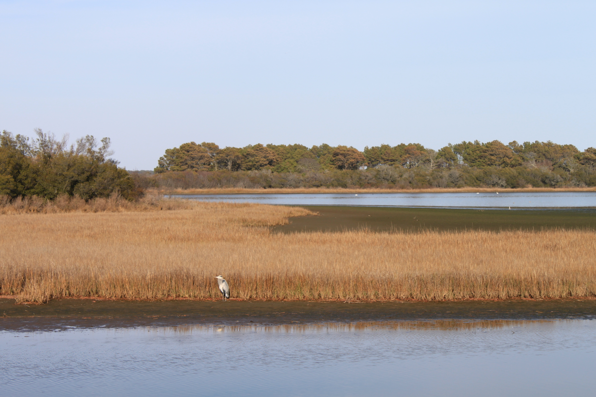 Photo taken in Winter 2011 at the Eastern shore of Virginia